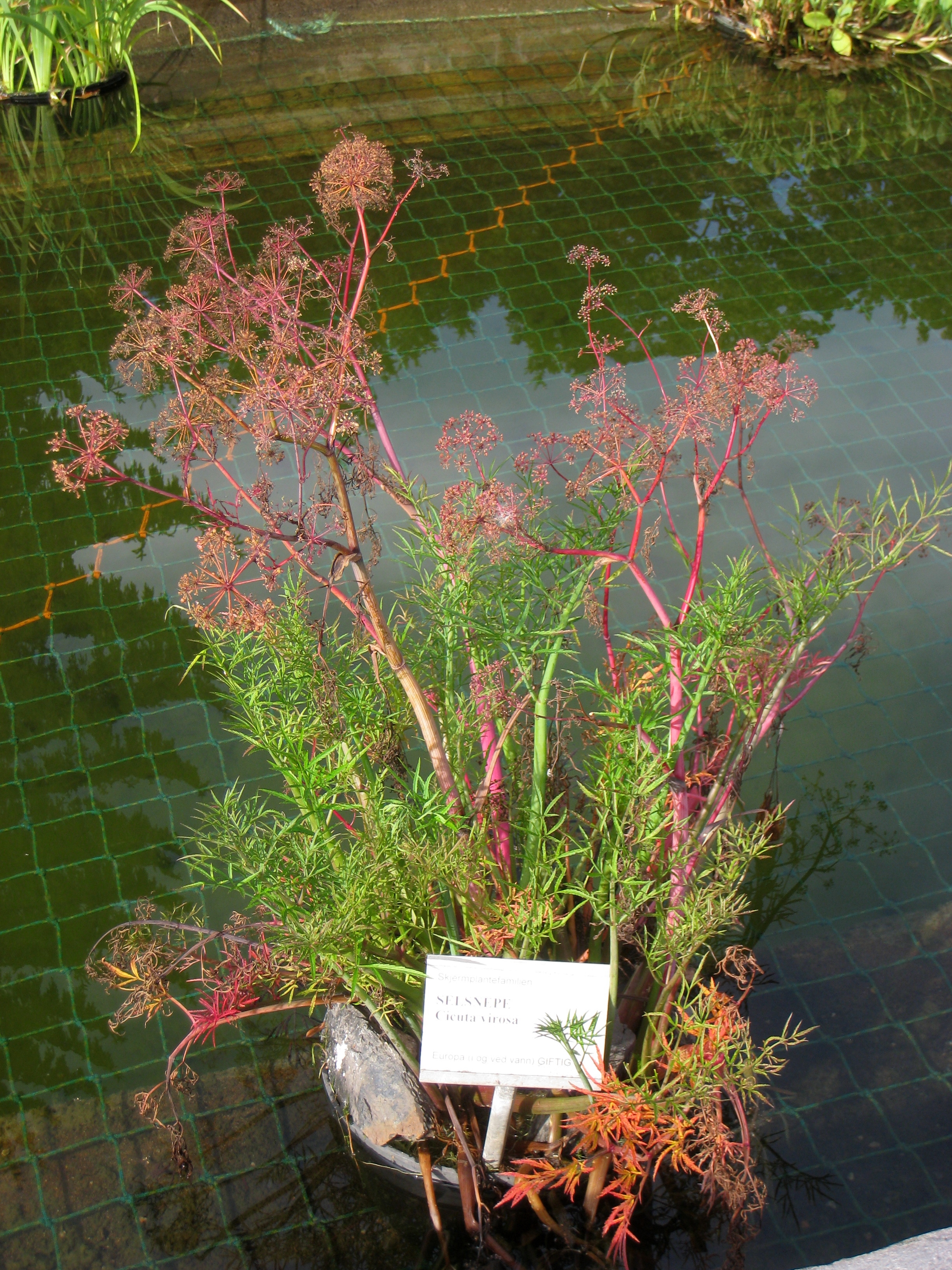 Cicuta virosa in the Oslo Botanical Garden, Oslo, Norway.